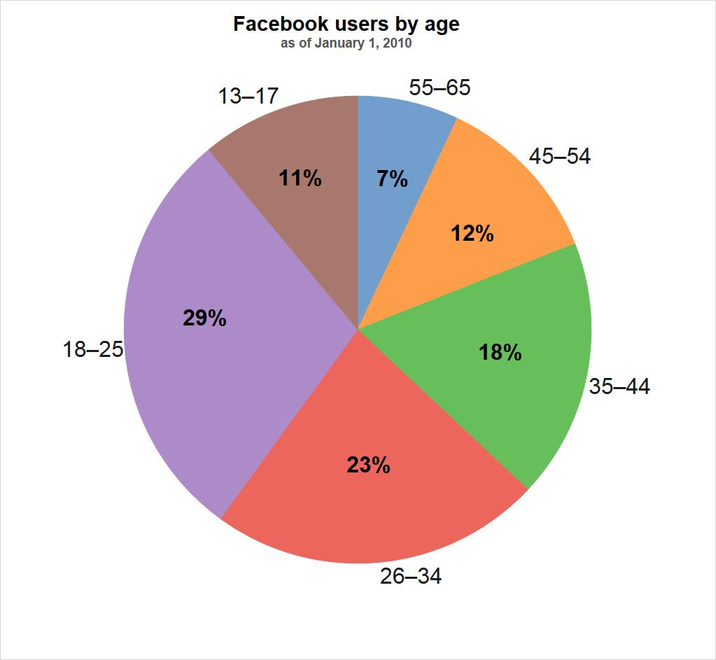 Pie chart of Facebook users by age as of January 1, 2010 from [1]. Created with Tableau Software